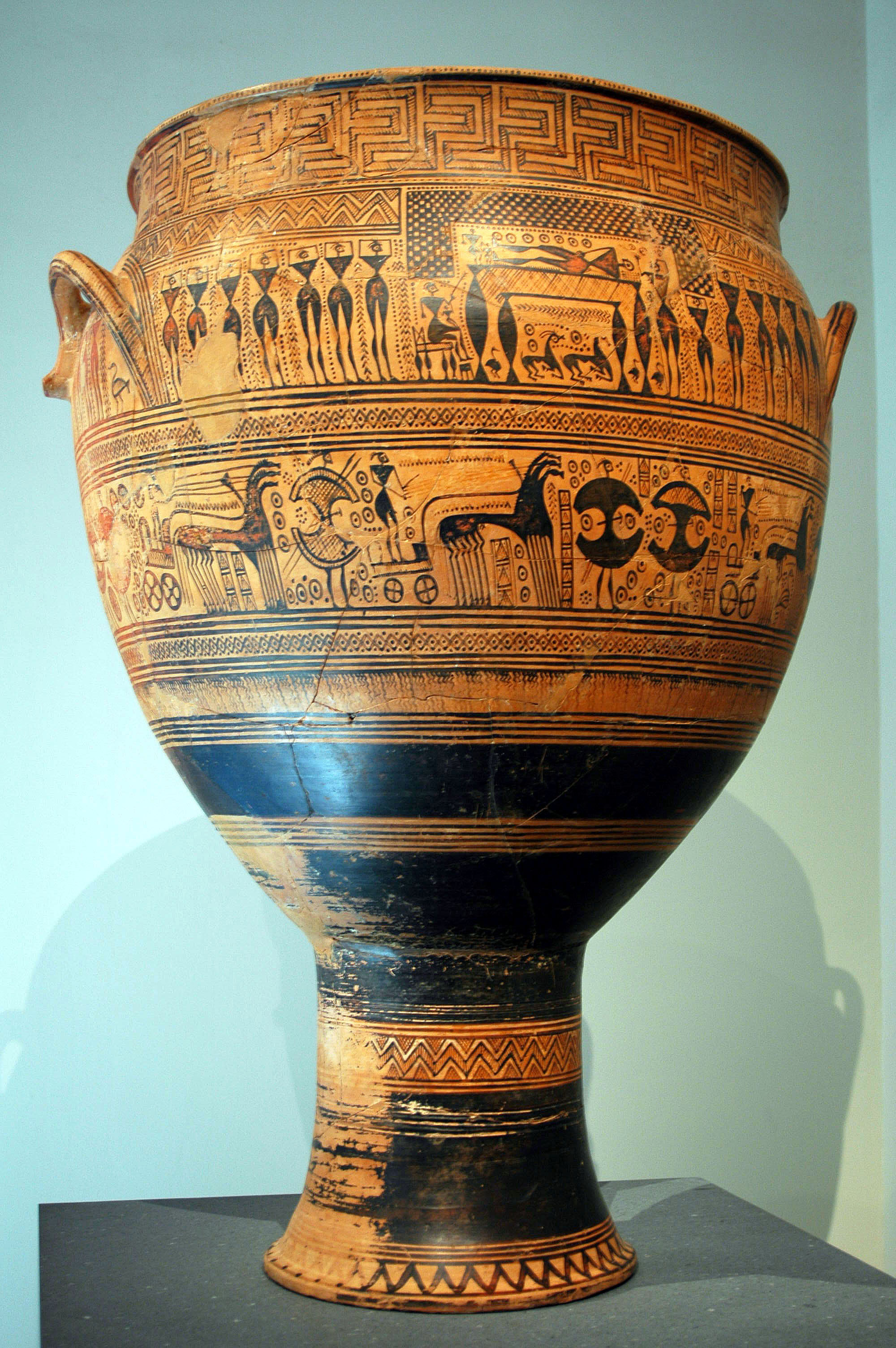 Krater with a prothesis scene (upper tier) and a procession of chariots and foot soldiers (lower tier).